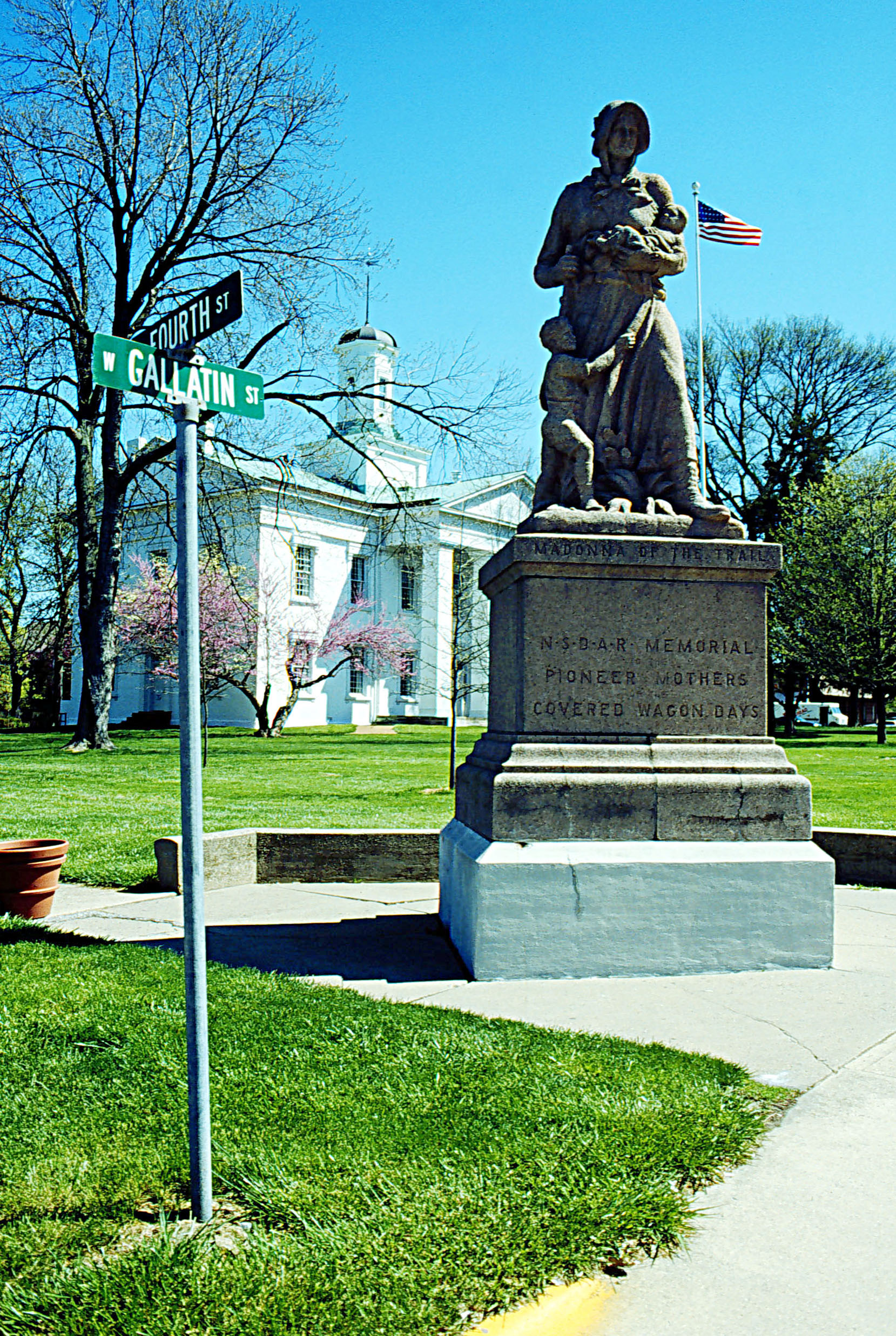 Vandalia State House State Historic Site, Vandalia, Illinois. The pure white Statehouse sits in the middle of a green lawn surrounded by budding trees. The Madonna of the Trail stands before it.